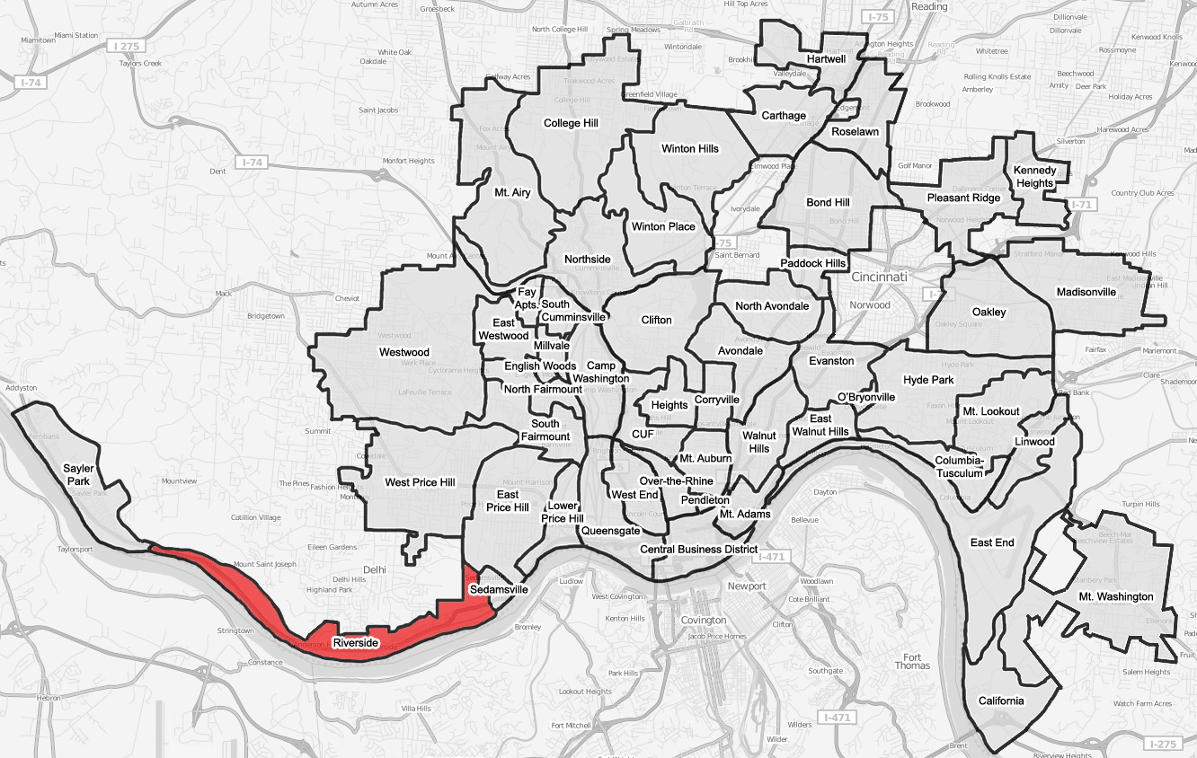 A map of the neighborhood of Riverside within Cincinnati, Ohio. Neighborhood lines are based on information from This street map is derived from a free map.